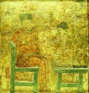 Watermelon, Mural from Tomb in Aohan, Liao Dynasty